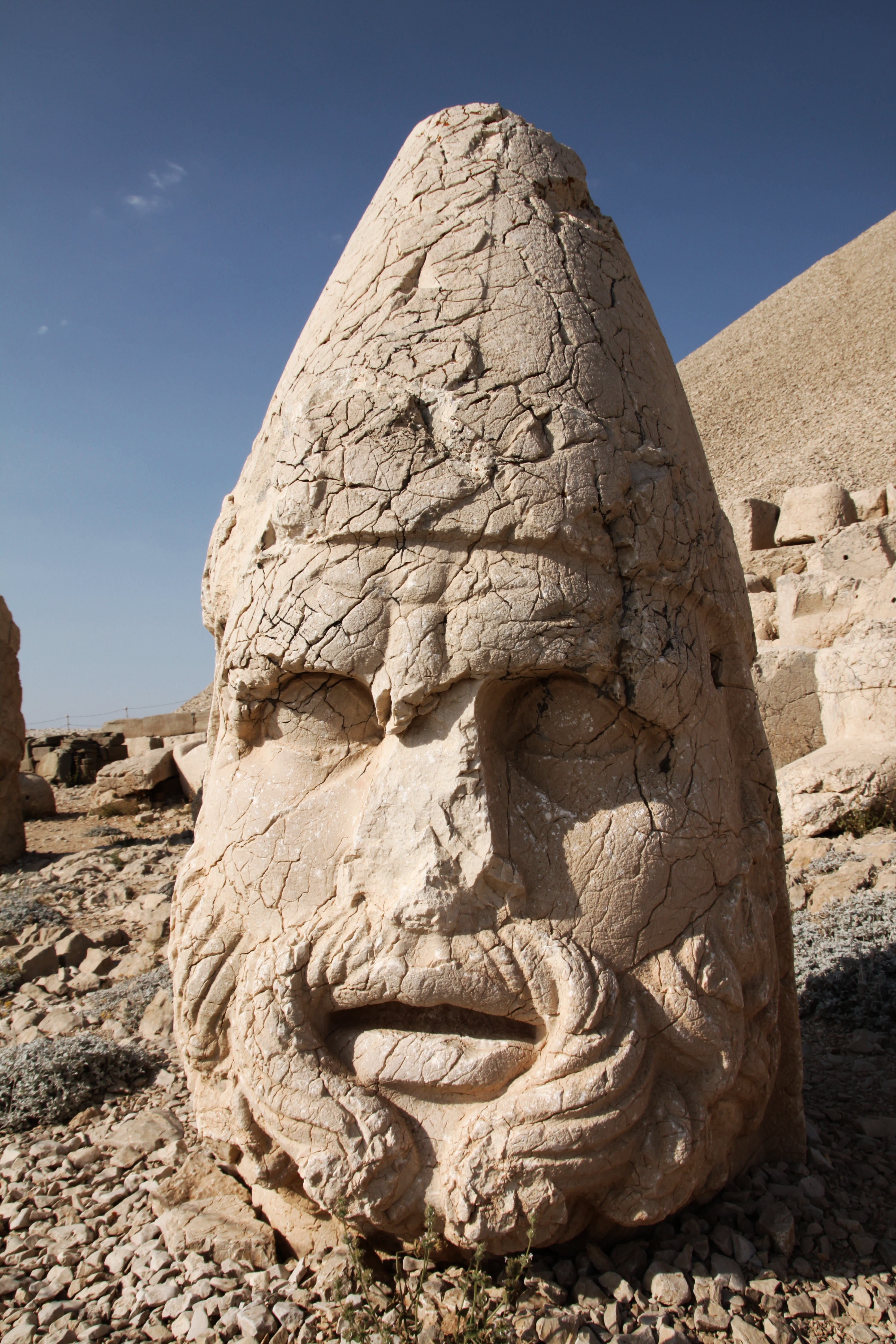 Mount Nemrut - West Terrace: Heracles Artagnes Ares Nemrut Tümülüsü Gods of Commagene